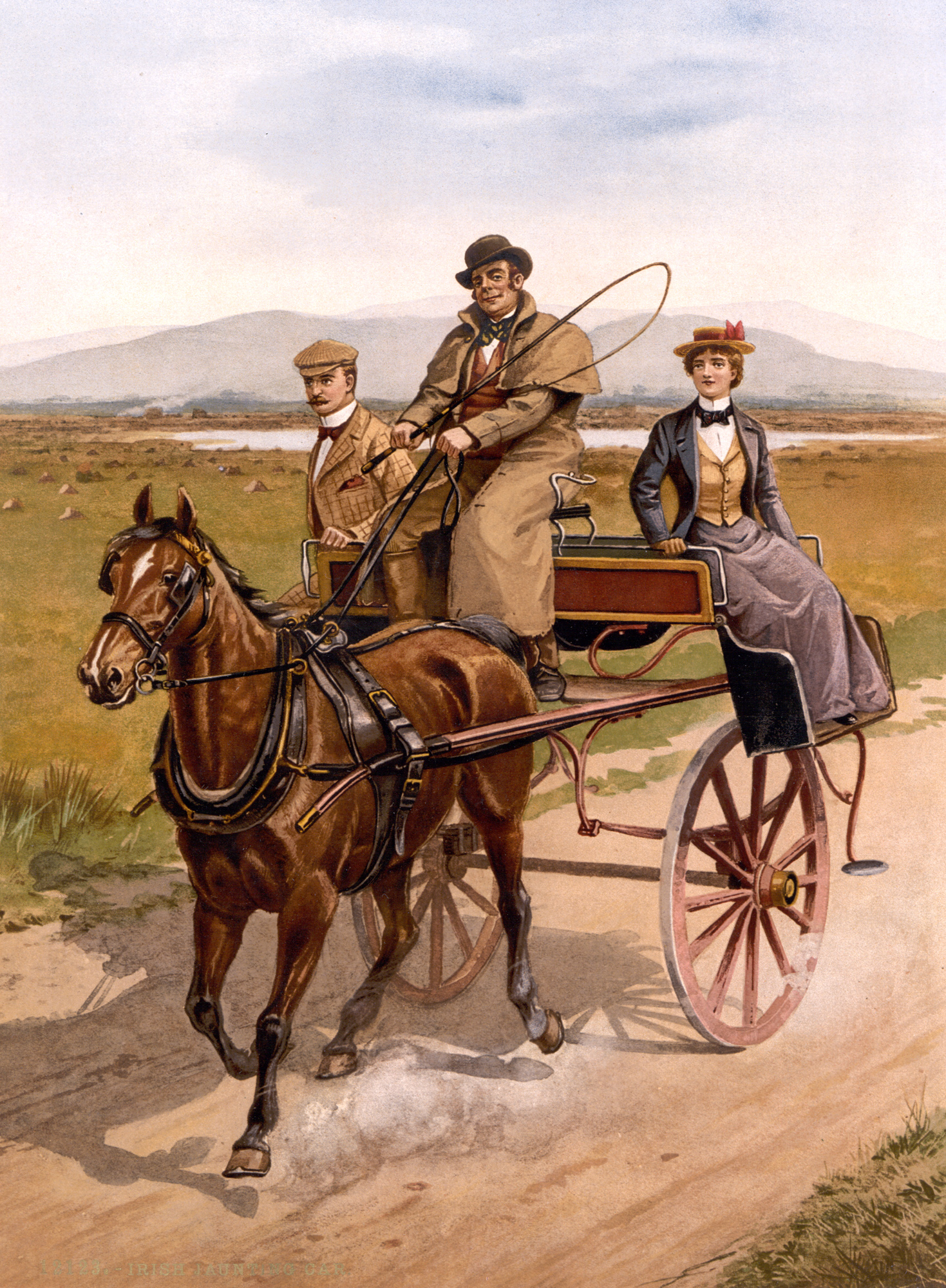 TITLE: [Irish Jaunting Car] CALL NUMBER: LOT 13406, no. 120 [item] [P&P] REPRODUCTION NUMBER: LC-DIG-ppmsc-09947 (digital file from original) No known restrictions on publication. MEDIUM: 1 photomechanical print : photochrom, color. CREATED/PUBLISHED: [between ca. 1890 and ca. 1900]. NOTES: Title from the Detroit Publishing Co., catalogue J--foreign section. Detroit, Mich. : Detroit Publishing Co., 1905.. Forms part of: Views of Ireland in the Photochrom print collection. FORMAT: Photochrom prints Color 1890-1900. PART OF: Views of Ireland REPOSITORY: Library of Congress Prints and Photographs Division Washington, D.C. 20540 USA DIGITAL ID: (original) ppmsc 09947 CARD #: 2002717319